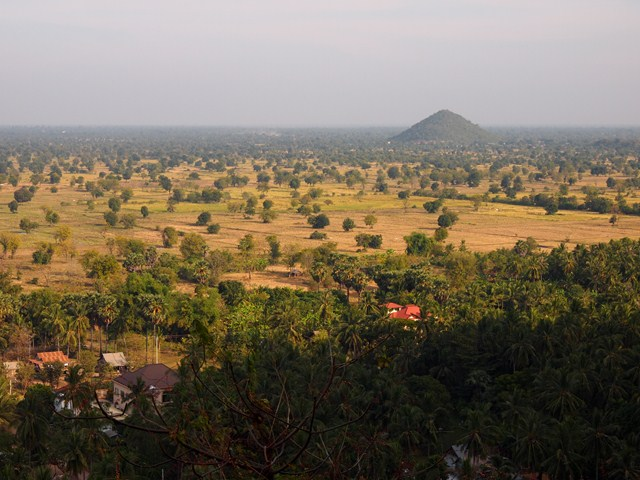 Scenic view of the valley below Phnom Sampeau